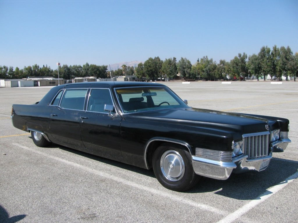 Heavy blackness!